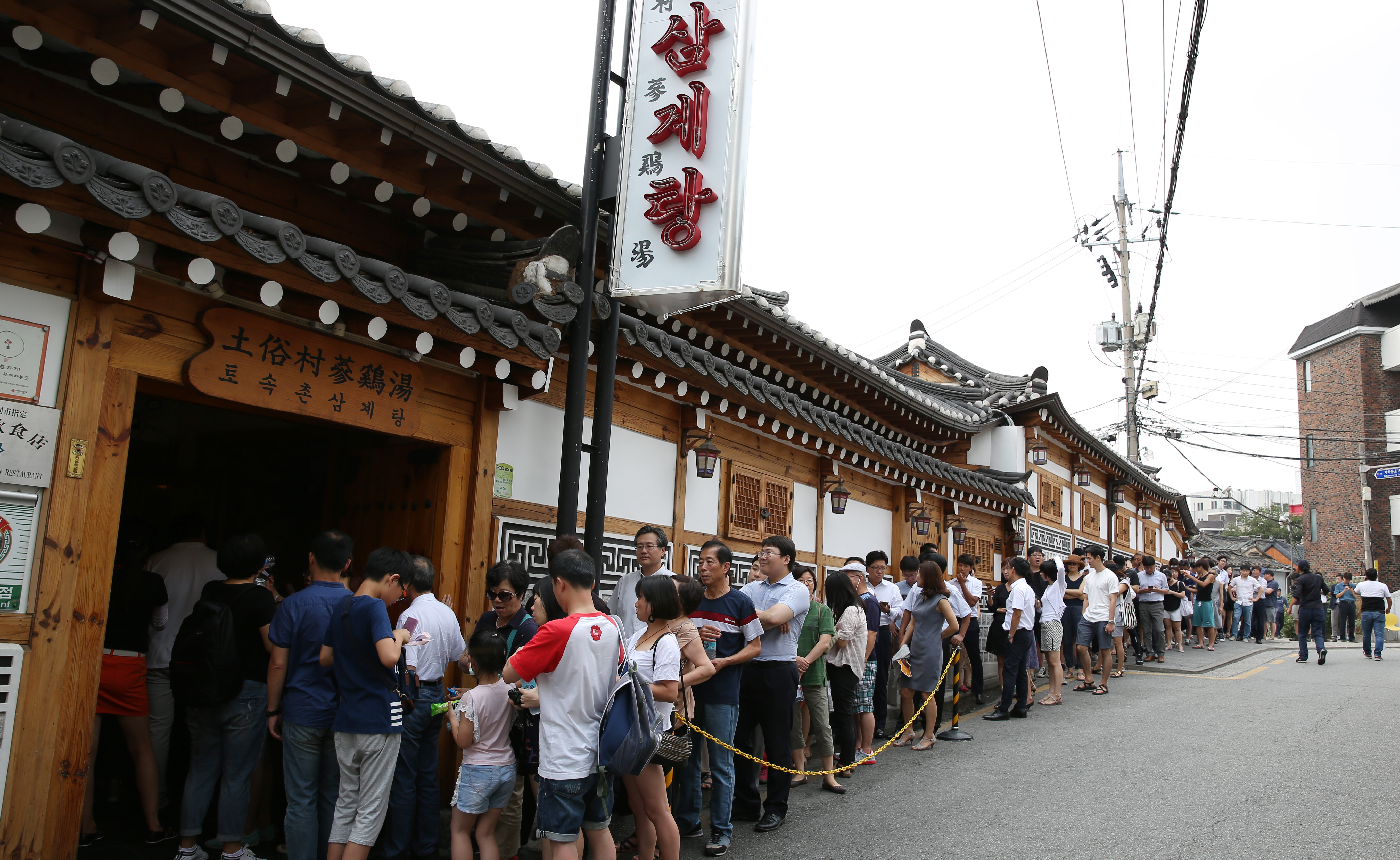 Malbok(marking the beginning of the final ten "hot days" of summer) August 16, 2016 Tosokchon Samgeetang, Jongno-gu